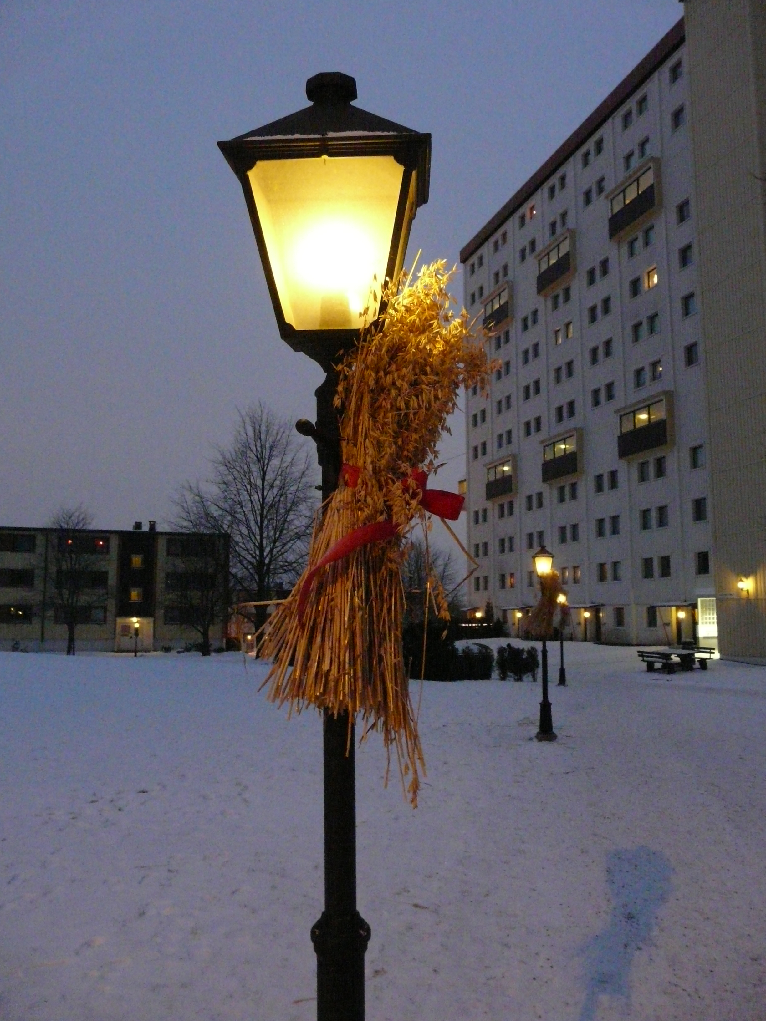 Christmas decoration in Groruddalen, Oslo.